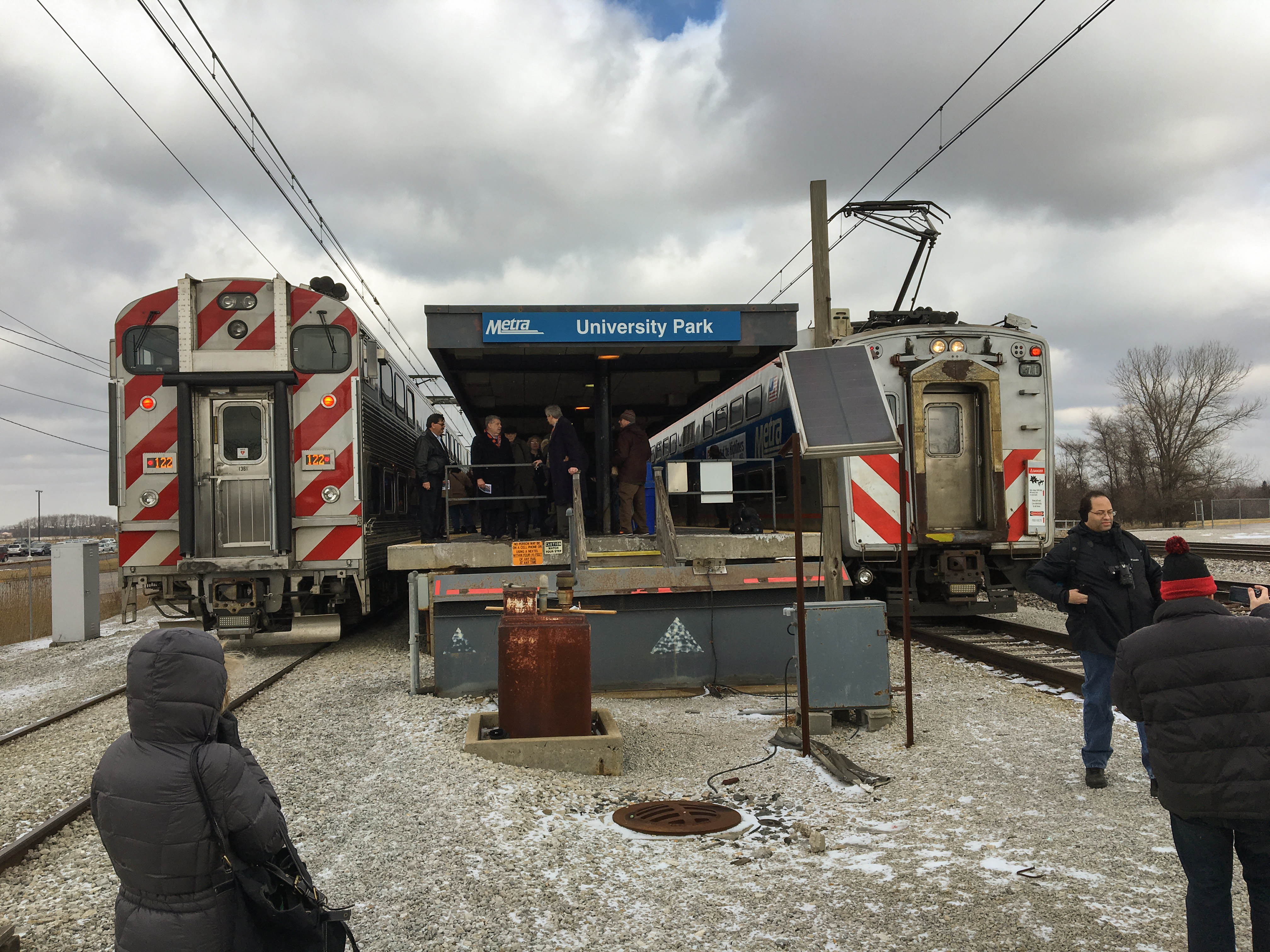 20160212 17 Last Run of Metra Electric Highliners